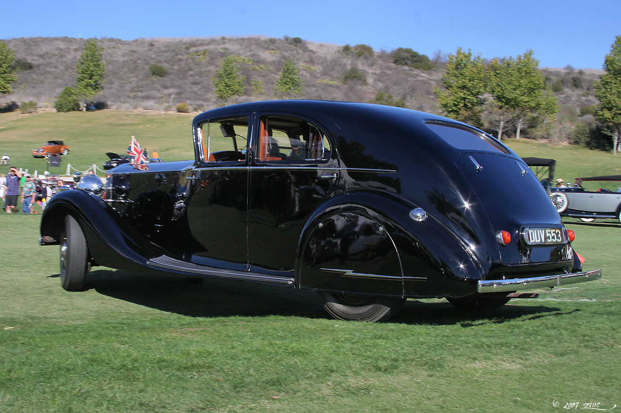 1937 Rolls-Royce Phantom III Touring Limousine by H J Mulliner Chassis 3AX79